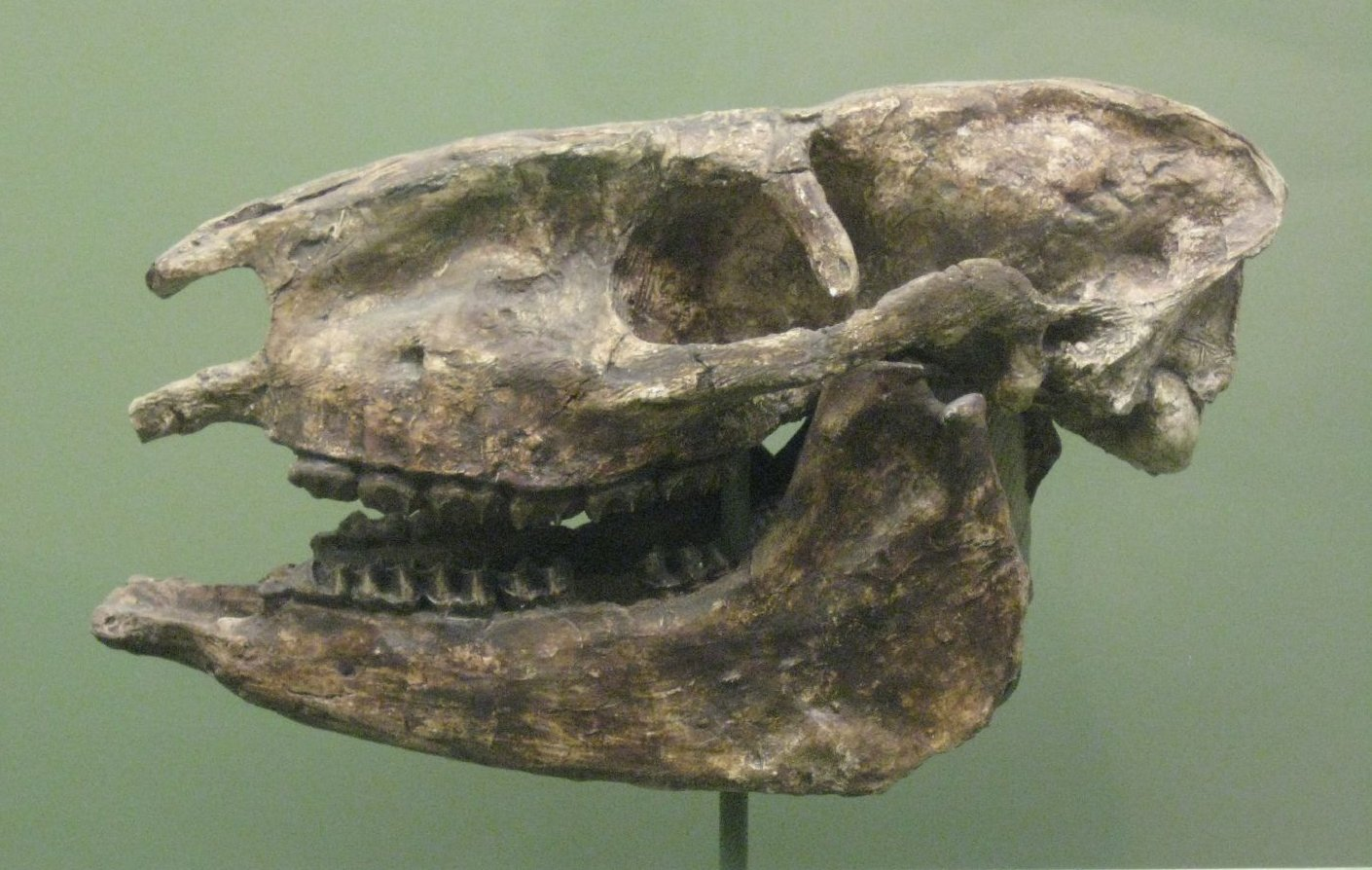 Crop of file in filename